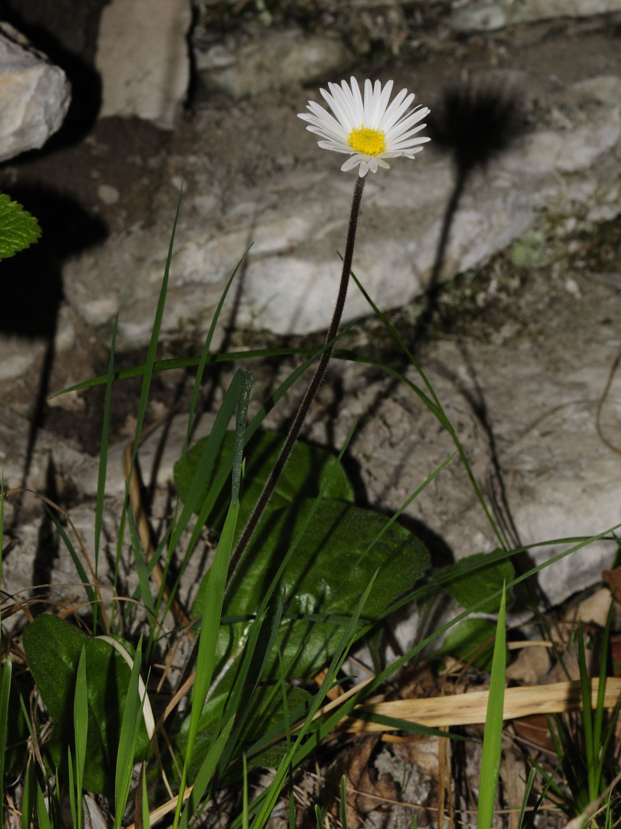 Please report references to .